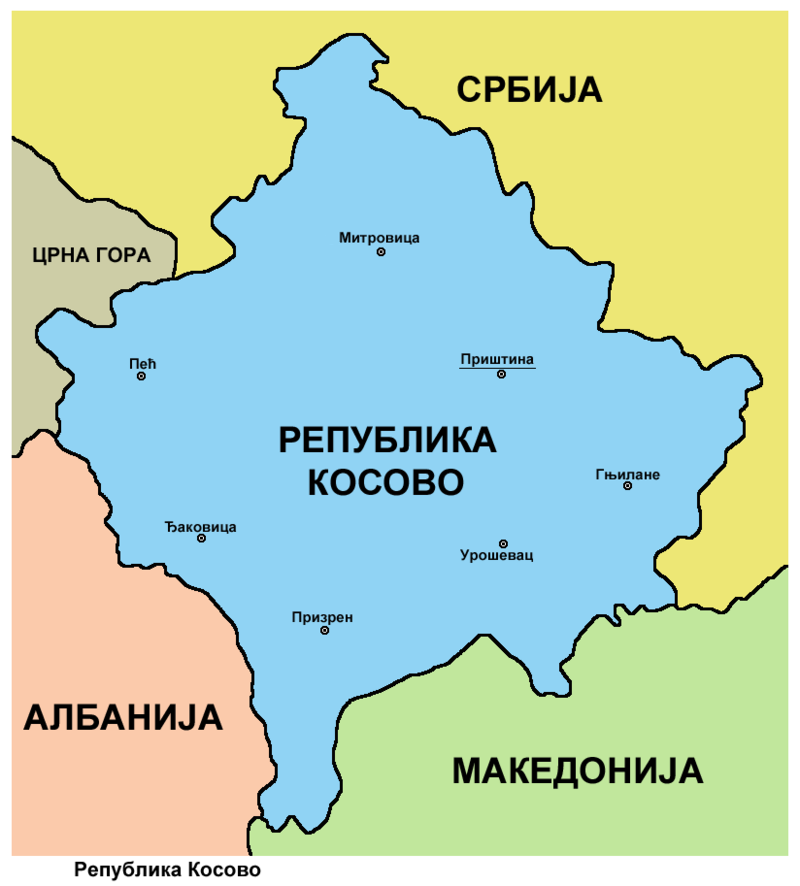 Map of the Republic of Kosovo.